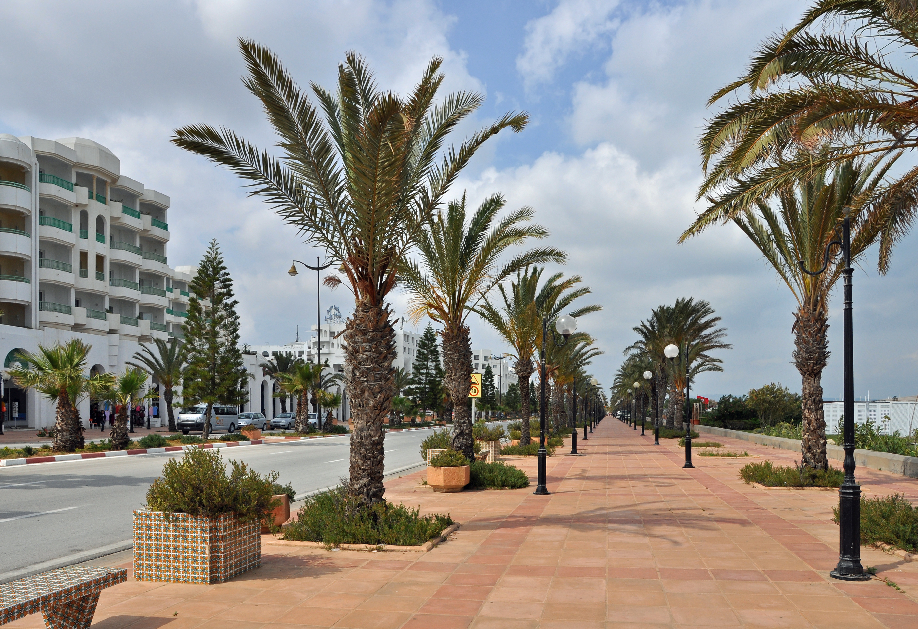 Hammamet-Yasmine (Tunisia): beach boulevard and promenade